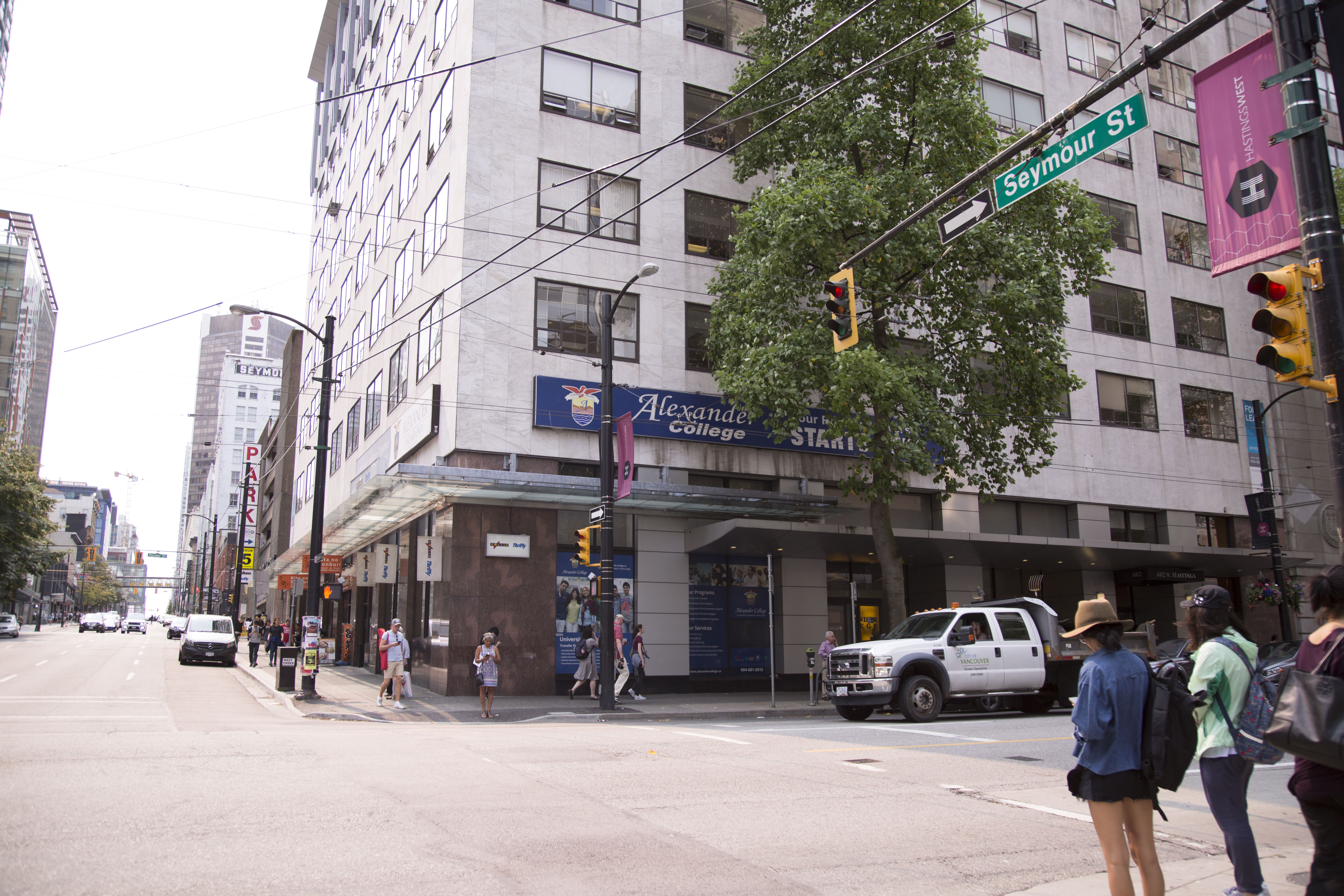 Alexander College Vancouver Campus